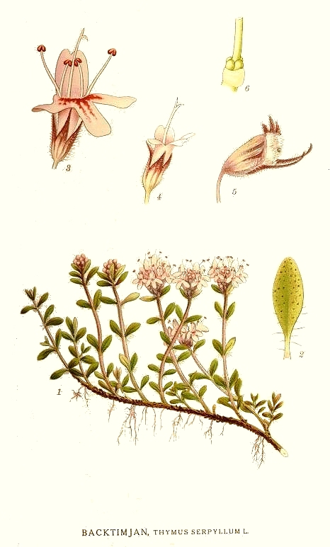 Original Description Backtimjan, Thymus serpyllum L.